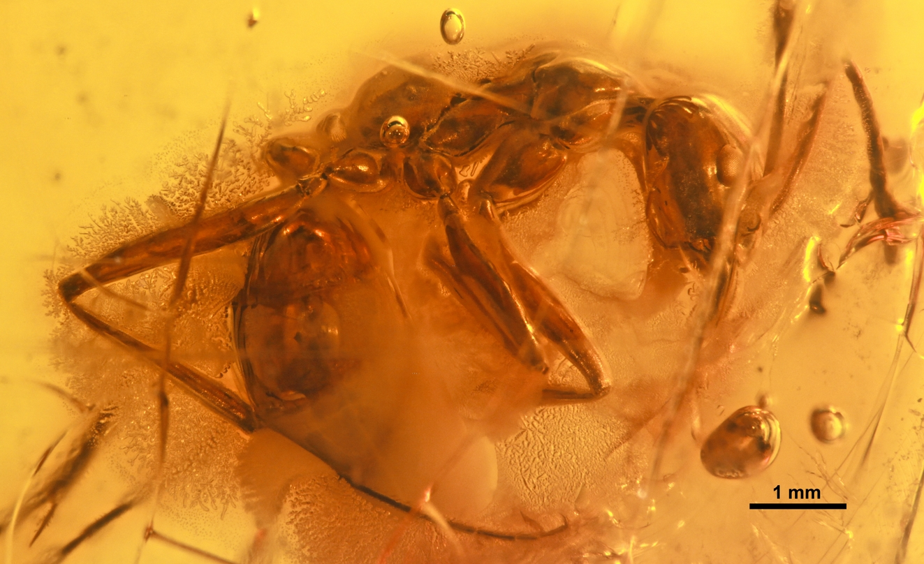 Profile view of the Paraneuretus tornquisti paratype specimen GZG-BST04675. (formerly specimen B 18551 of the Geologic Institute of Koenigsberg Collection). Lutetian, Baltic Amber; Russia?